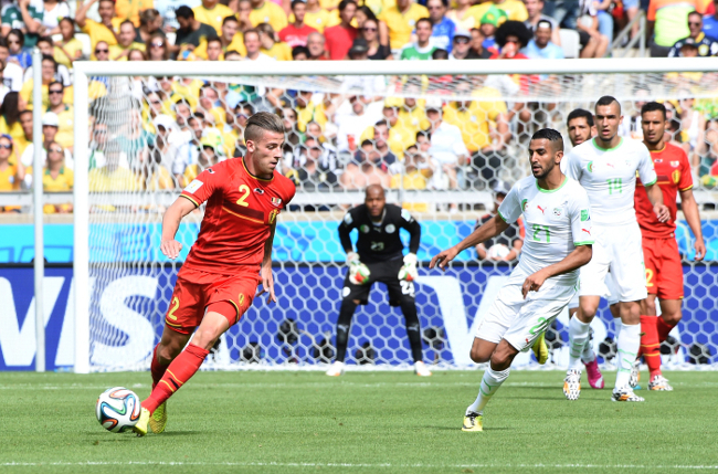 Riyad Mahrez (left) and Nabil Bentaleb (right) prevent Belgium's Toby Alderweireld from getting close to keeper Rais M'bohli. رياض محرز (بسار) ونبيل بن طالب (يمين) يمنعان لاعب بلجيكا توبي آلدرويرلد من الاقتراب من حارس المرمى الجزائري رايس مبولحي. Riyad Mahrez (à gauche) et Nabil Bentaleb (à droite) empêchent le Belge Toby Alderweireld de s'approcher du gardien Rais M'bohli.